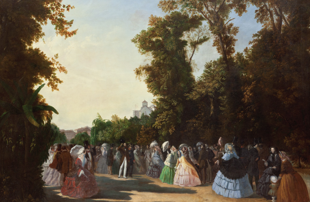 "A view of the Passeio Público" (1856), by Leonel Marques Pereira. The painter depicted a group of elegant characters, assembled in two rows, walking through the Passeio Público park, in Lisbon, Portugal. The group is the center of the composition and is arranged in what seems to be an elongated V shape that heightens the perspective. In the center of the group, the figure of King Ferdinand II stands out from the others, tall, lean and elegant, wearing a brown morning coat, white trousers and a tall hat. Next to the central character, wearing military uniform, the King's aide-de-camp, the Count of Campanhã; the other two male figures around these central characters are Almeida Garrett and the Marquis of Ávila e Bolama. All of the figures are surrounded by a thoroughly green environment that reminds the country depictions of Watteau. The King greets the ladies and the assembled gentlemen uncover their heads, their greeting being elegantly returned. The gentlemen are also in morning dress, top hats and tight trousers. The ladies wear a set of colourful dresses and ample skirts, over petticoats and crinolines. Capes, hats and parasols are natural complements of the toilette. The surrounding natural environment was treated by the artist with large detail, be that in colour or shape, which allows us to identity some species of the trees, such as a banana-tree on the left side of the observer, and the willows in the background. Also in the background, one can glimpse the ruins of the Carmo Convent and the buildings around the Rossio Square.